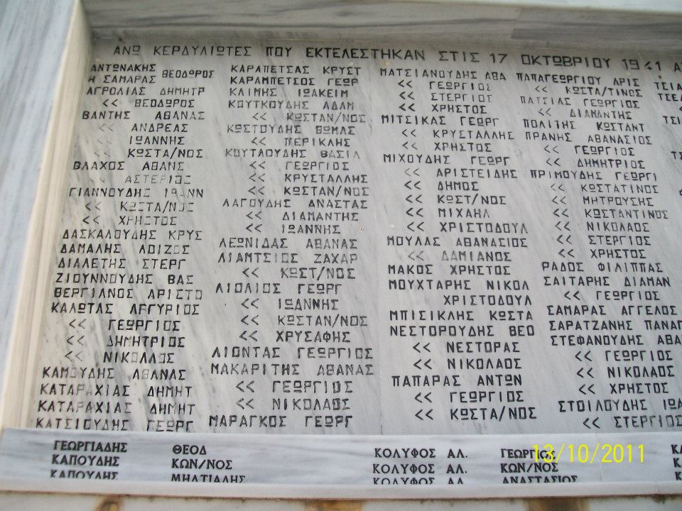 Closer caption of the sign-Memorial of Ano Kerdylia, Serres